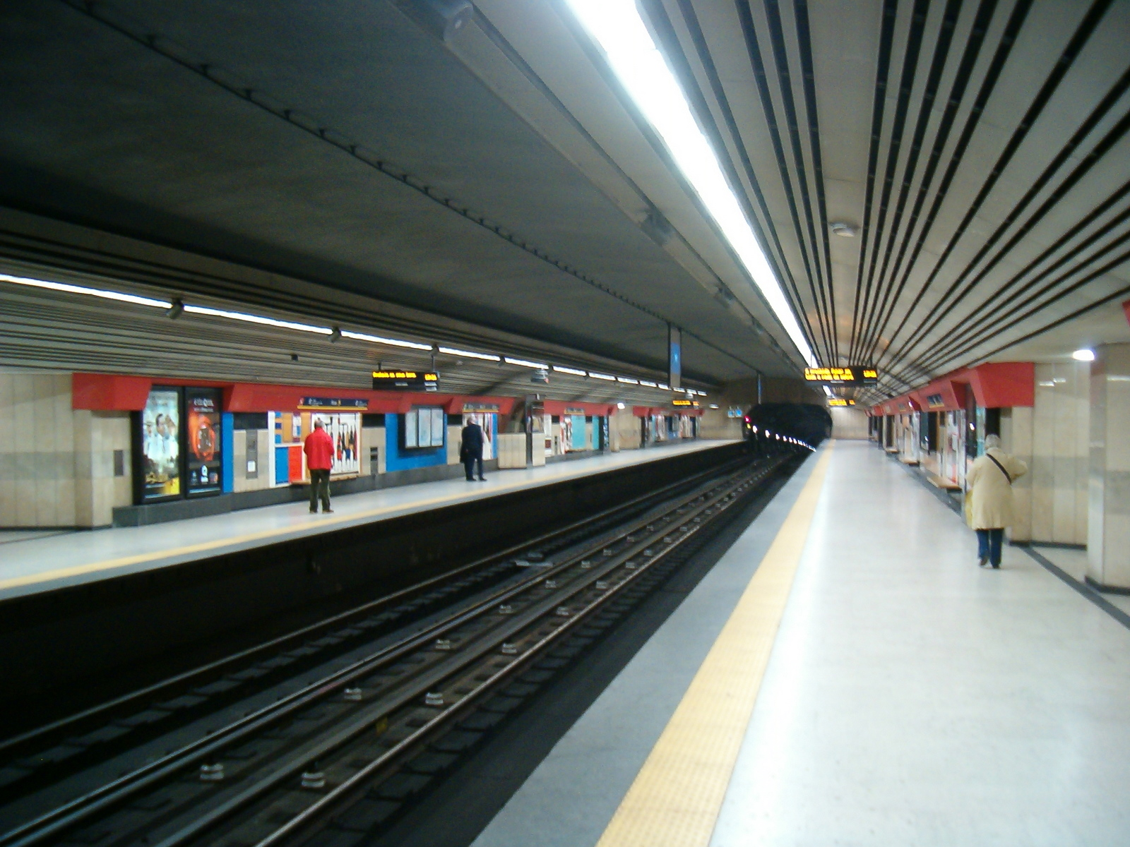 Metro station Picoas (Lisboa)